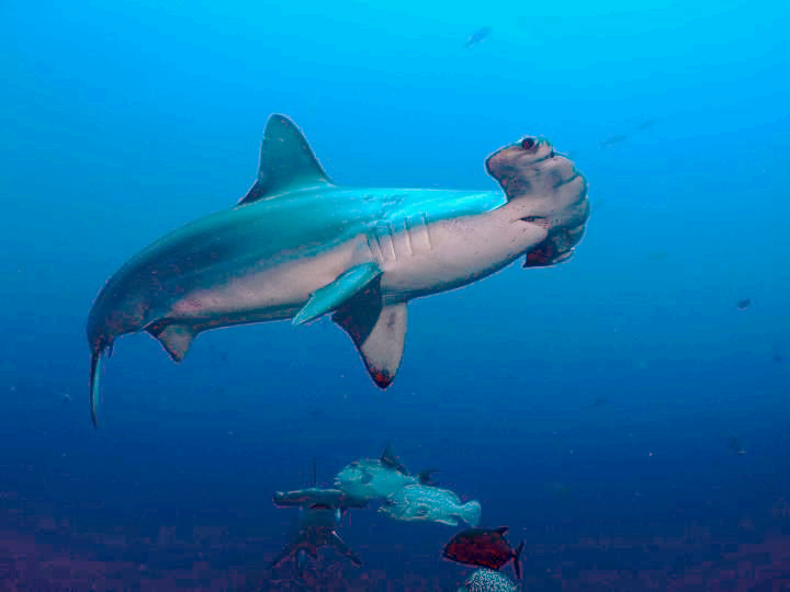 Hammerhead shark (Sphyrna lewini), Cocos Island, Costa Rica.